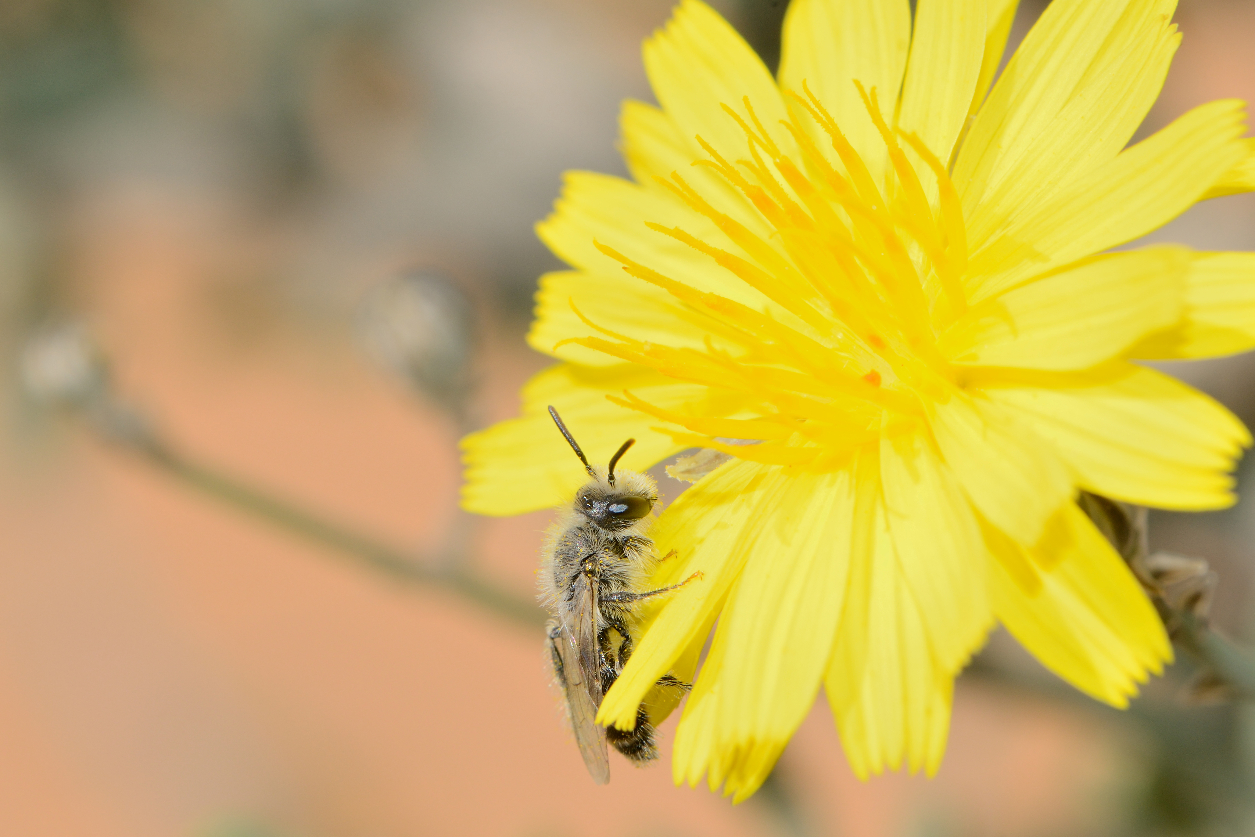 Andrena aegyptiaca Friese 1899, male on Launaea sp., Holot Mash'abbim, Northern Negev, Israel, March 17, 2012. Det. Erwin Scheuchl 2013.